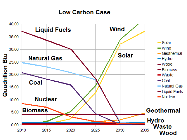 US energy consumption 2035 Low Carbon Case - Zero Carbon by 2030 (other than biomass and biofuels)